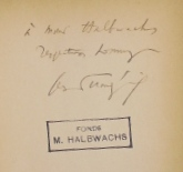 Signature of Georges Dumézil on Naissance de Rome, Paris, Gallimard, 1944. This book was offered to Maurice Halbwachs and is now held in the Human and Social Sciences Library Paris Descartes-CNRS.